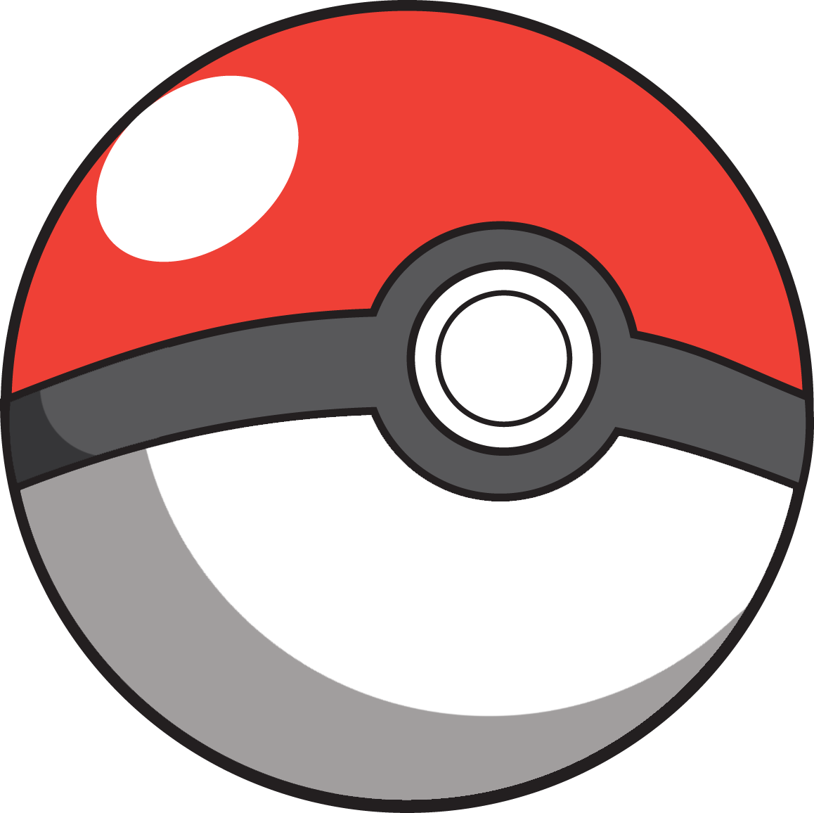 tyhtgrb